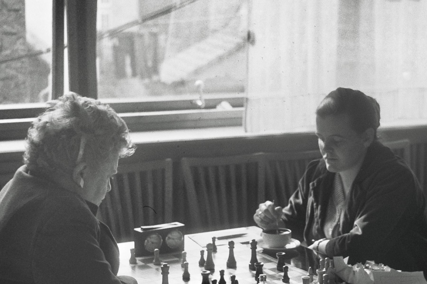 Maria Imkamp - Juliane Hund, German Chess Championship (women) 1959 at Dahn, Photographer